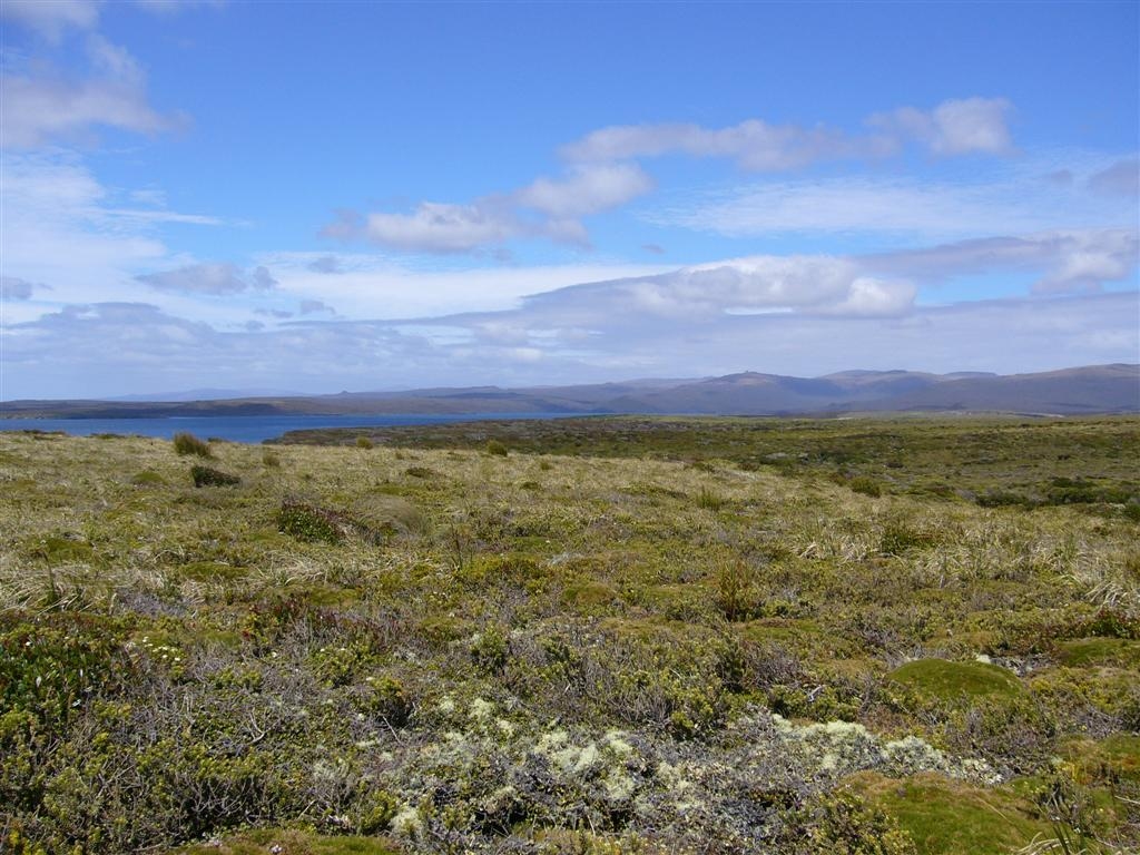 Auckland Island high in the distance - view from Enderby Island. Auckland Islands, New Zealand